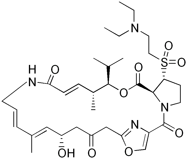 An updated image of Dalfopristin. The earlier one had too many carbon atoms.